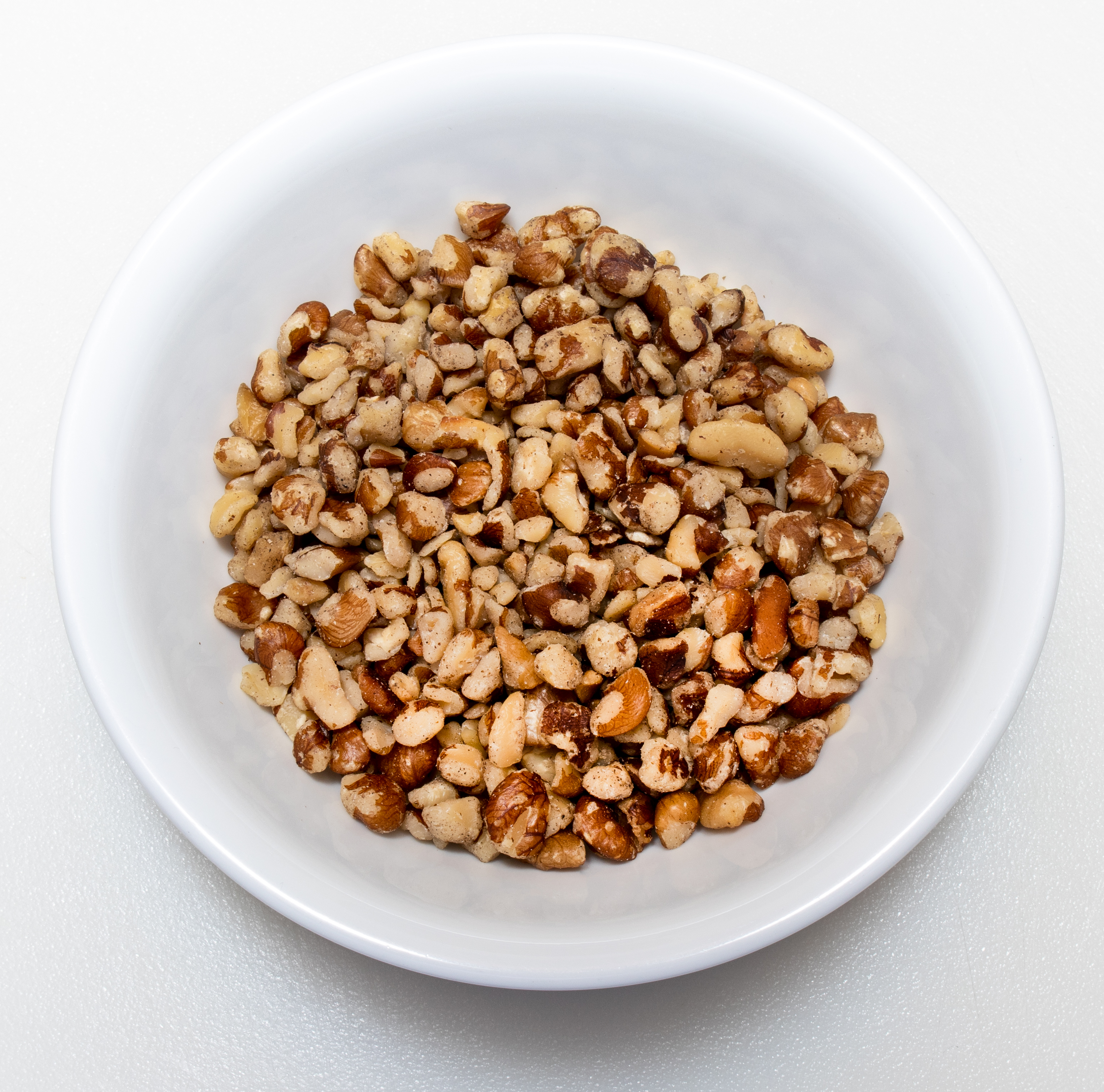 Black Walnut (Juglans nigra) meat, shelled